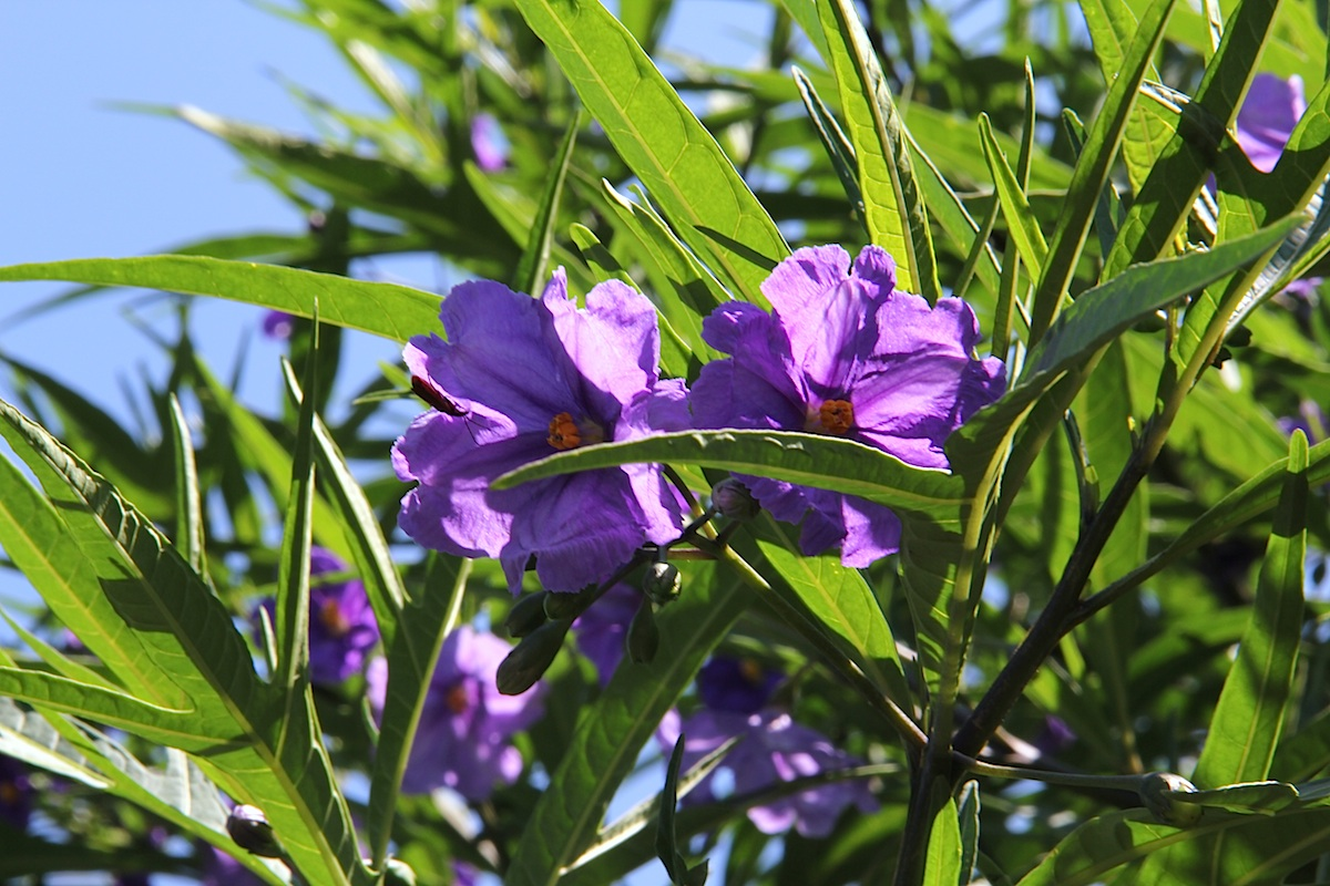 Solanum aviculare - Kangaro Apple